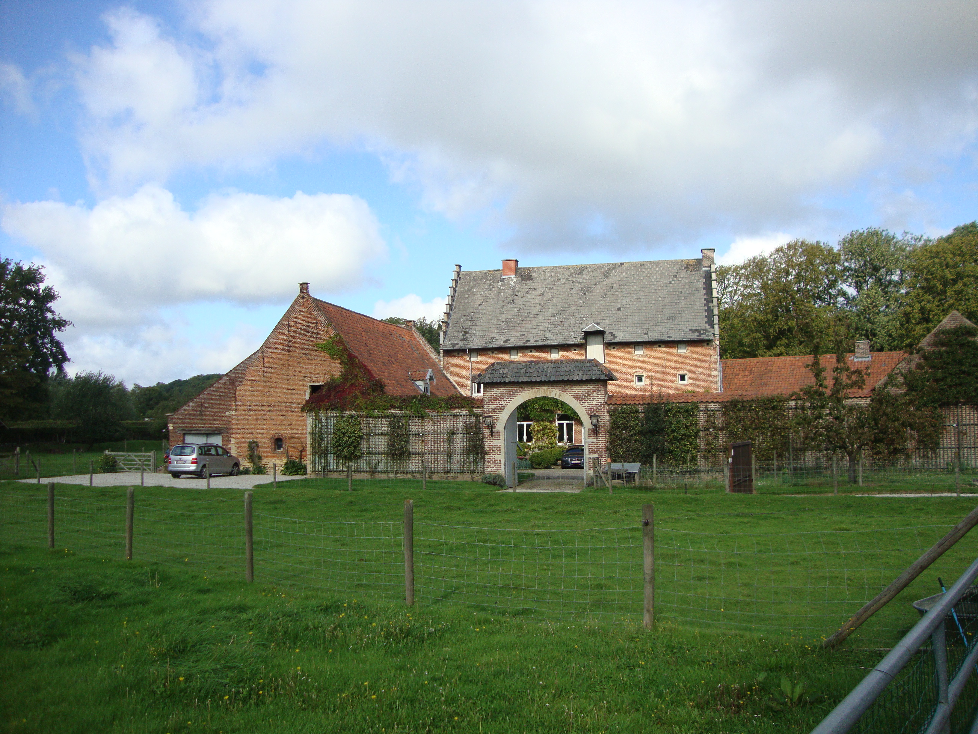 Former castle farm dated 1647 on a plaque above the door, Everberg